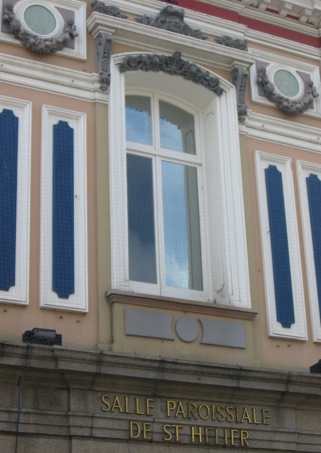 Jersey Nrf: Jèrri